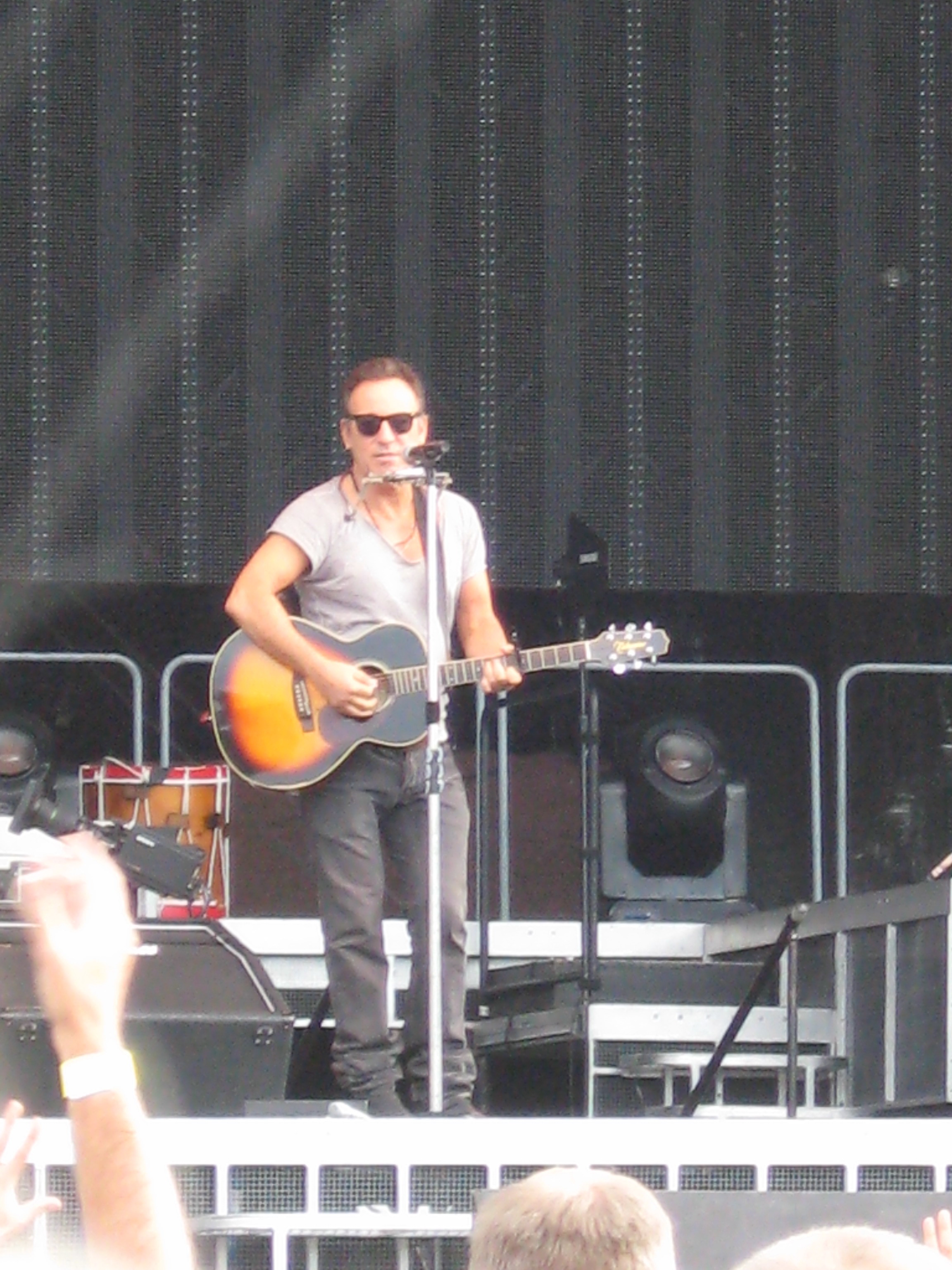 Bruce Springsteen in Helsinki Olympic Stadium, Finland in 2012-07-31